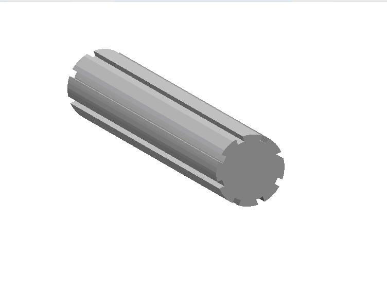 Simulación de un pasador estriado